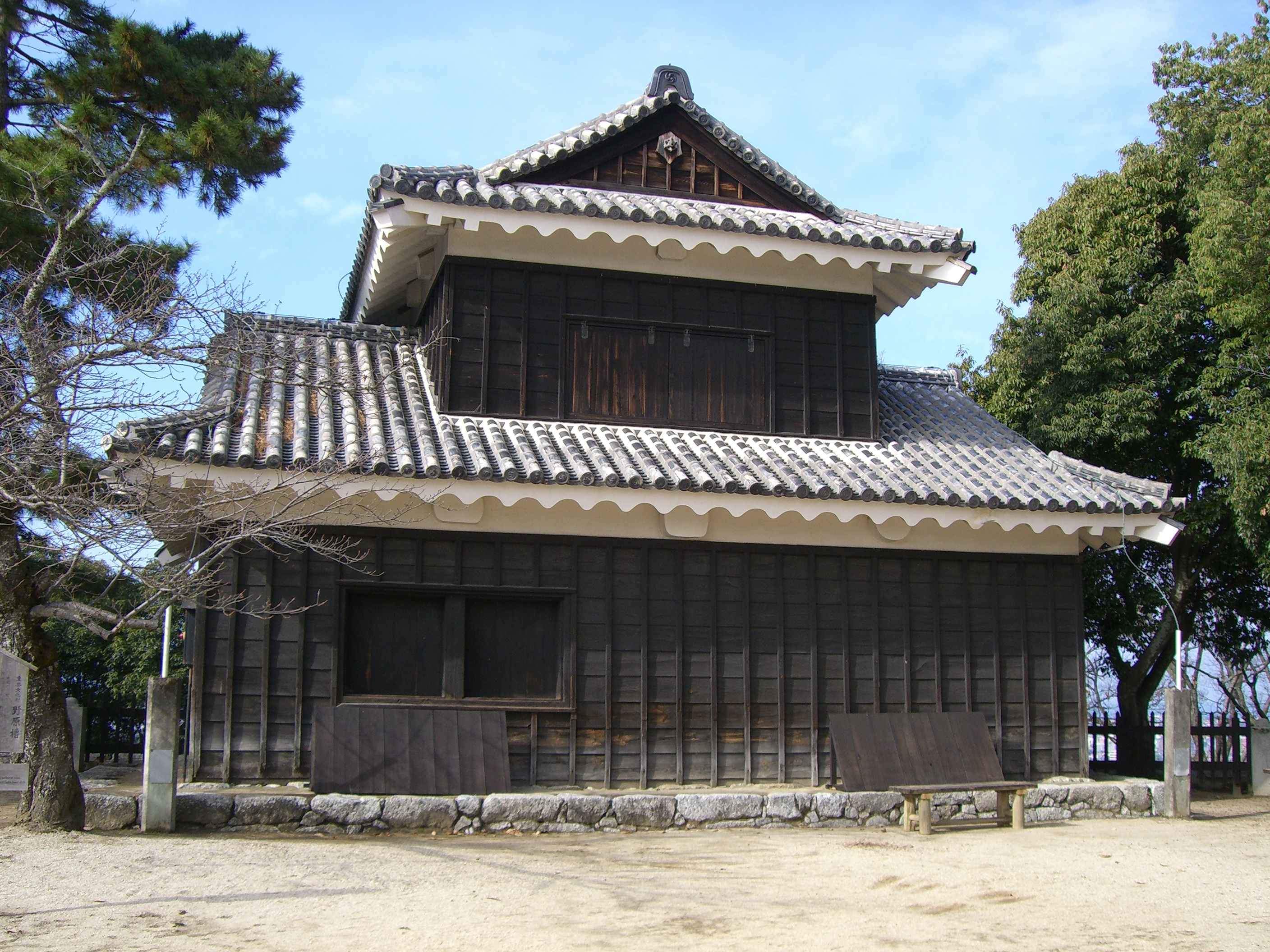 "NOHARA-YAGURA(Nohara Turret)" of Matsuyama Castle (Important Cultural Property of JAPAN).: This turret along with INUI Turret provided protection on the northwest side of the main castle. This is the oldest structure in The Matsuyama Castle. (Ehime JAPAN)